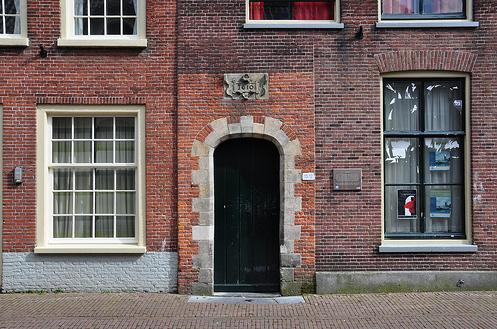 Entrance to the Jean Michelhof garden, Leiden